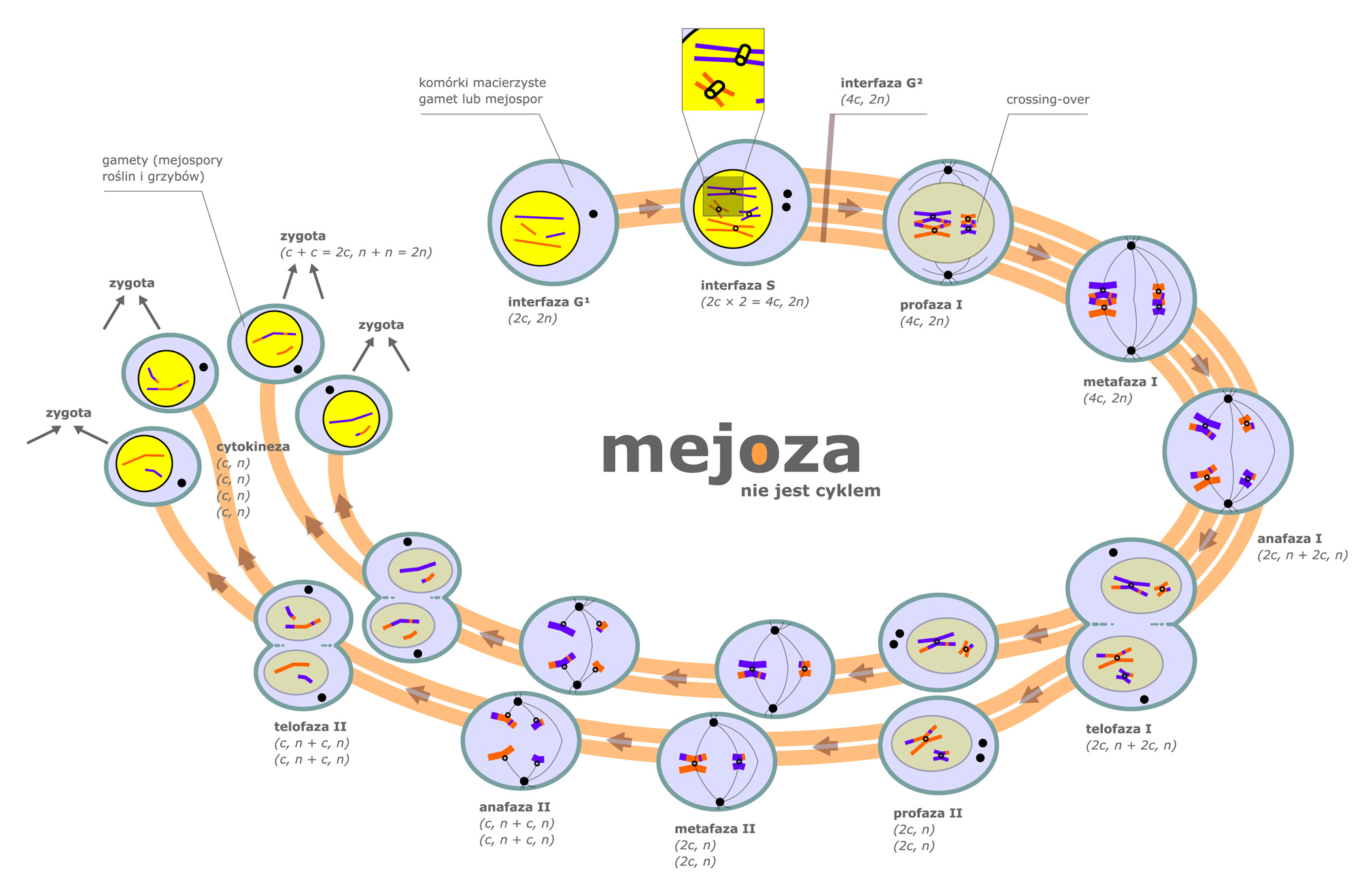 Meiosis is a process in which a diploid cell divides itself into 4 haploid cells. The diagram shows Meiosis as a non-cyclic process.